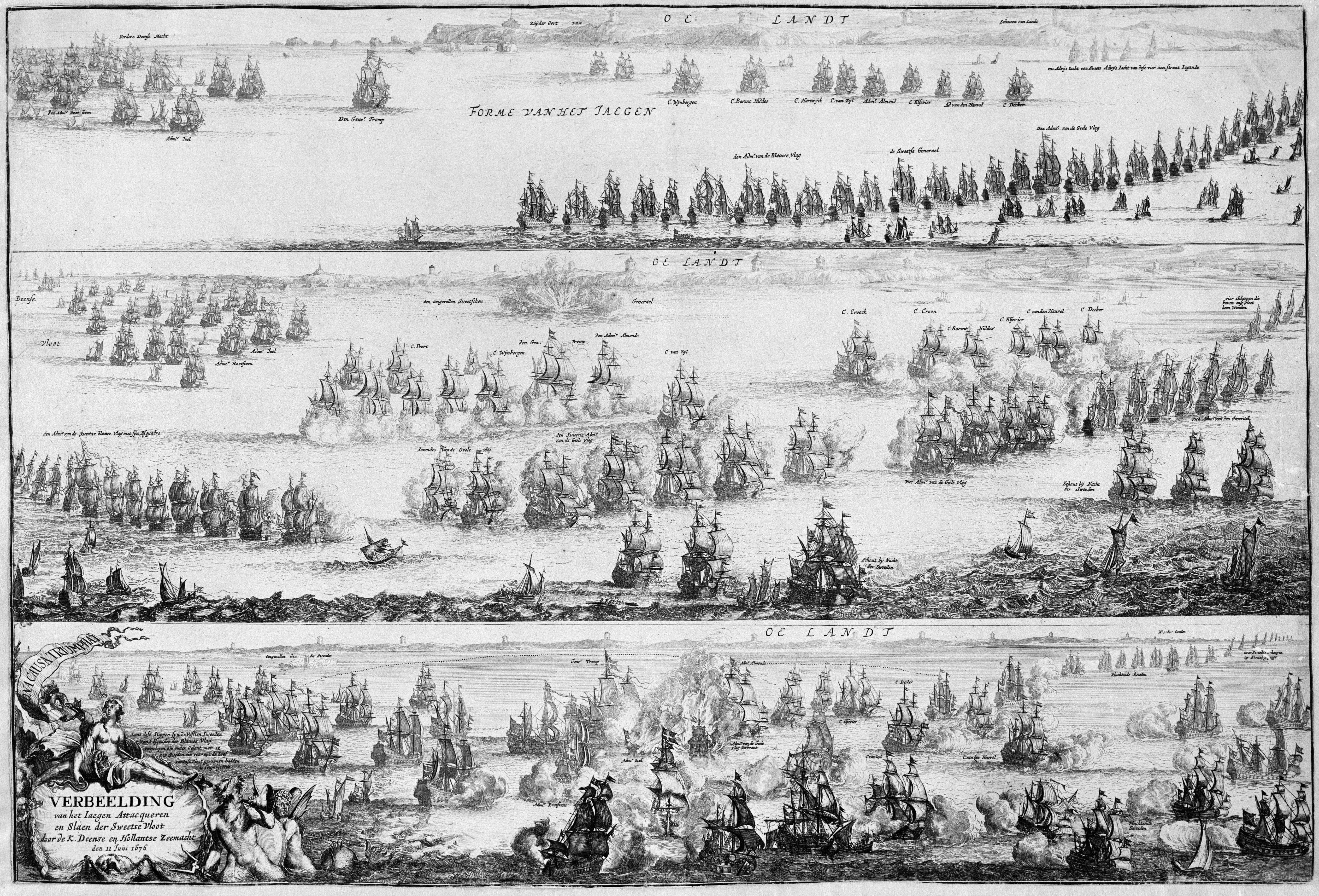 Depiction of the Battle of Öland in 1676, between the combined Danish-Dutch fleet, commanded by Cornelis Tromp, and the Swedish fleet commanded by Lorentz Creutz. The battle was a major failure for the Swedes since they lost two of their largest ships, Kronan (foundered by accident) and Svärdet (sunk by a Dutch fireship) with a loss of close to 1,200 men.